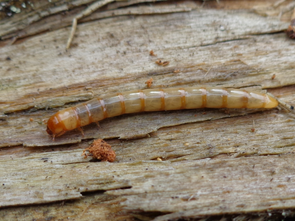 Larvae of Pseudocistela ceramboides.